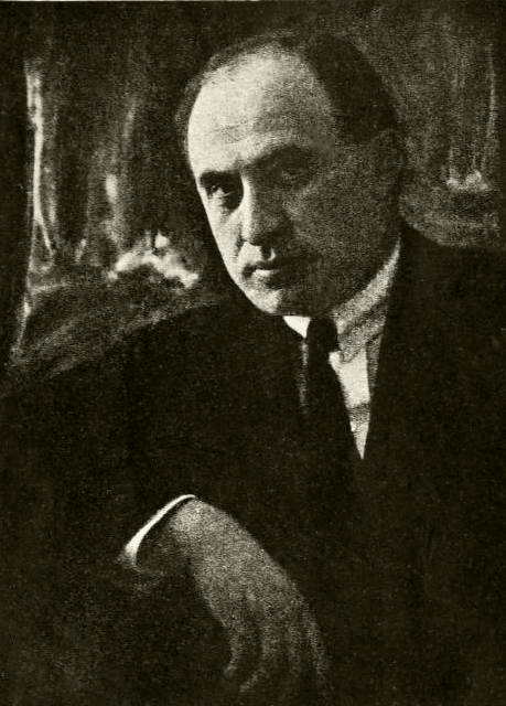 Nahum Zemach Moskaertheater 1920